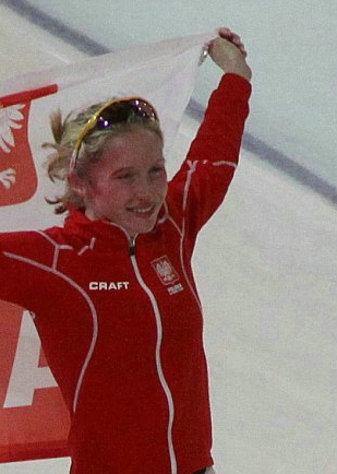 Luiza Złotkowska